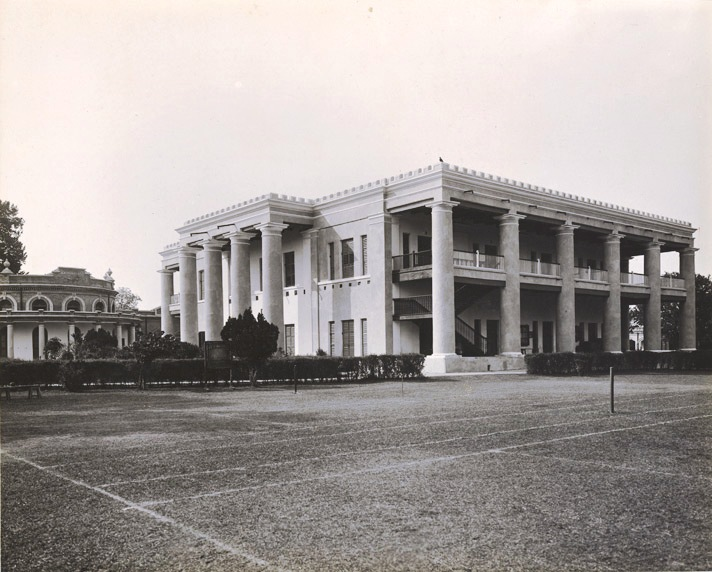 Photograph taken by Fritz Kapp in 1904 with a view of Dacca College from the tennis courts in Dacca (now Dhaka), part of an album of 30 prints from the Curzon Collection.